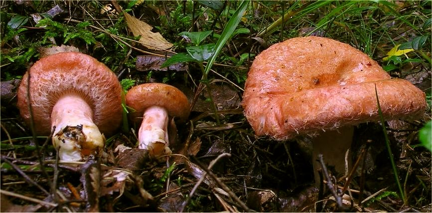 The fungus Lactarius torminosus (Schaeff.) Gray. Specimen photographed in Västerbotten, Sweden.